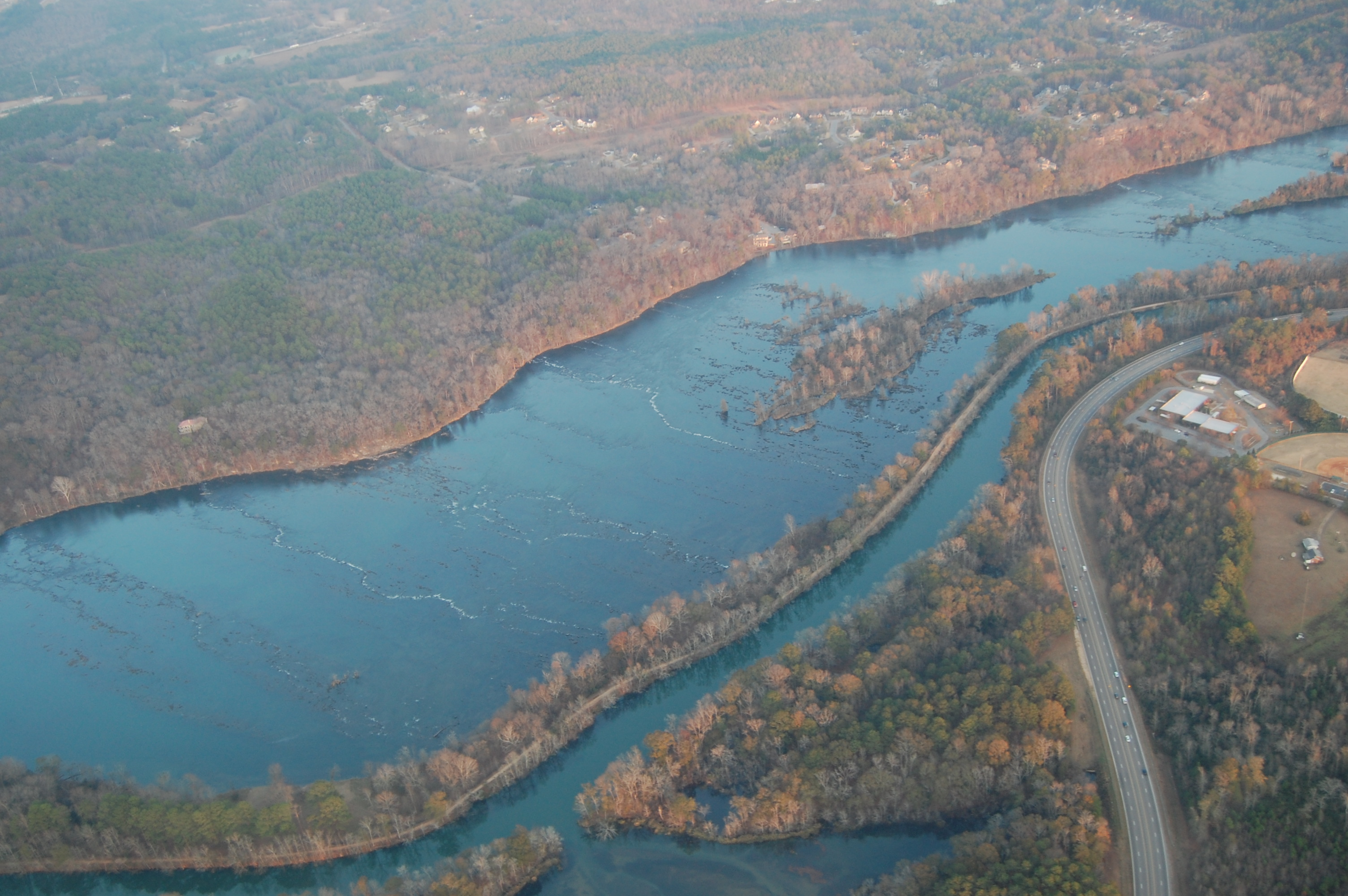 Savannah River. Aiken County, South Carolina (USA) to north. Augusta Canal and River Watch Parkway (Augusta, Georgia, USA) to south